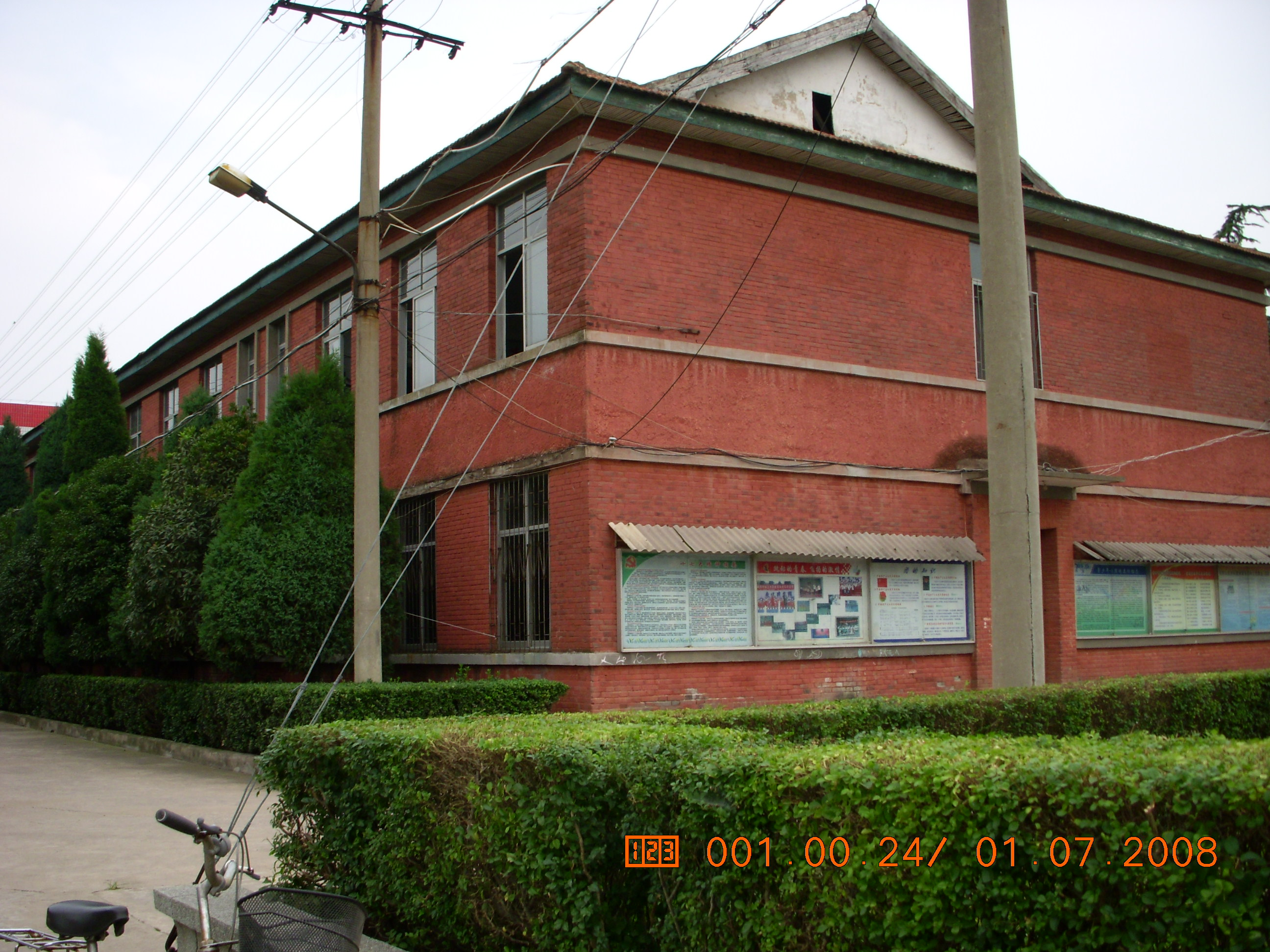 Red Teaching Building of Huangchuan Teaching School